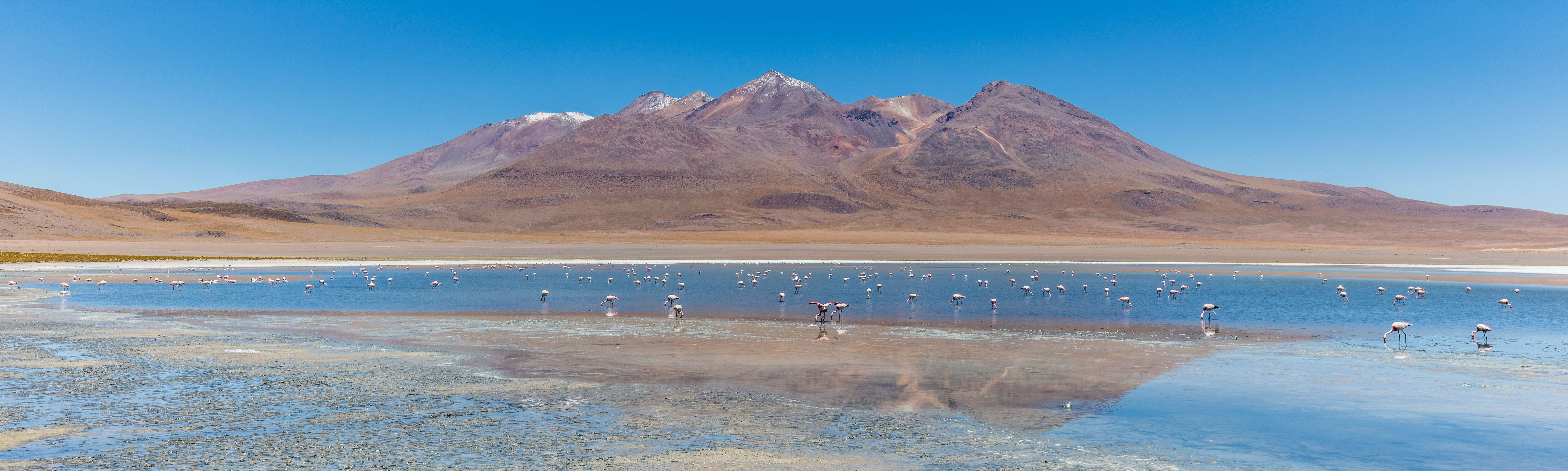 Andean flamingos (Phoenicoparrus andinus) in the Cañapa lake, Bolivia. The Cañapa Lake is an endorheic salt lake of a surface of 1.42 square kilometres (0.55 sq mi) located in the Potosí Department, southwestern Bolivia.